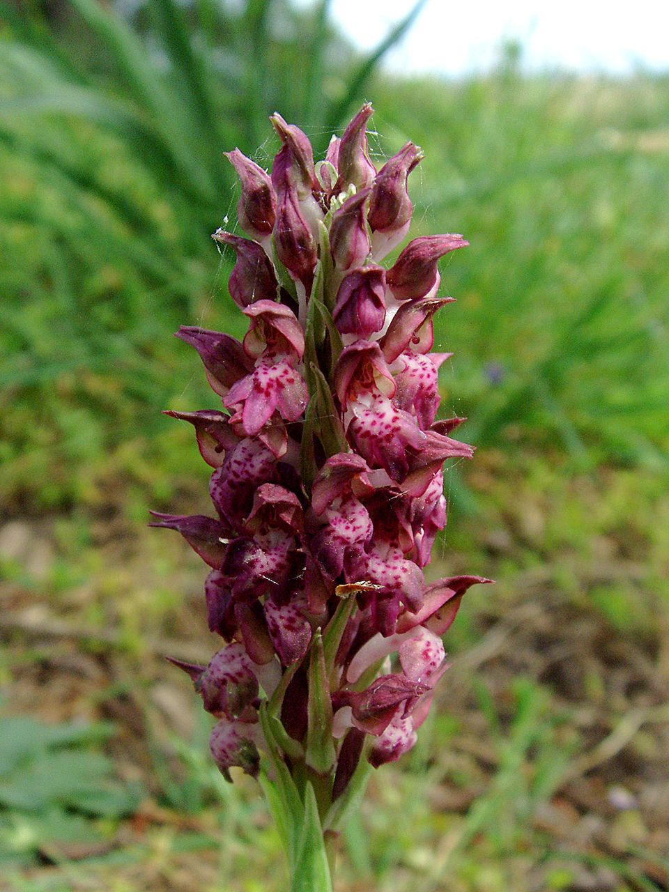 Anacamptis coriophora